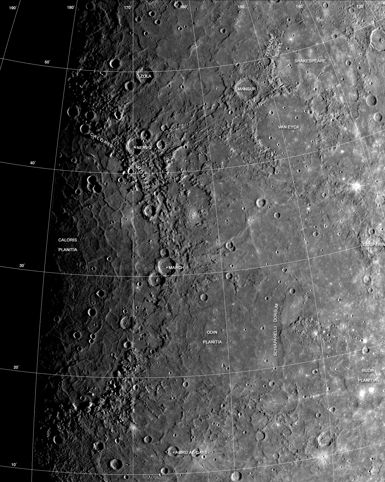 Mariner 10 photomosaic of Caloris Basin on Mercury, with labels